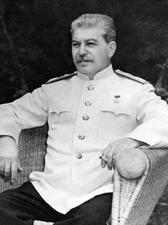 Cropped photograph of Joseph Stalin at Potsdam Conference (Cropped and reuploaded by Emiya1980